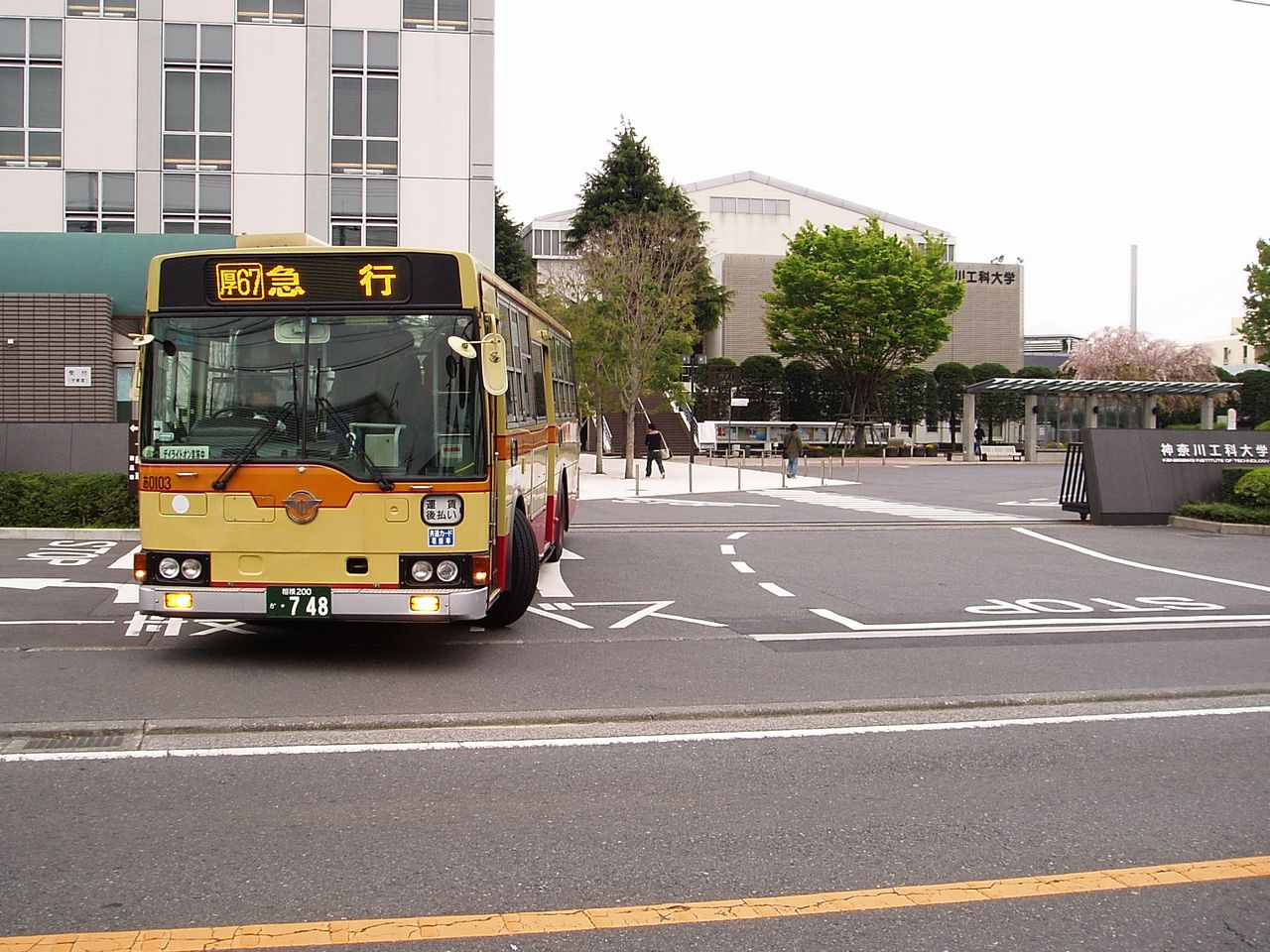 Kanachu A0103（あ0103） mitsubishi KC-MP217M at Kanagawa Institute of Technology ,Atsugi city